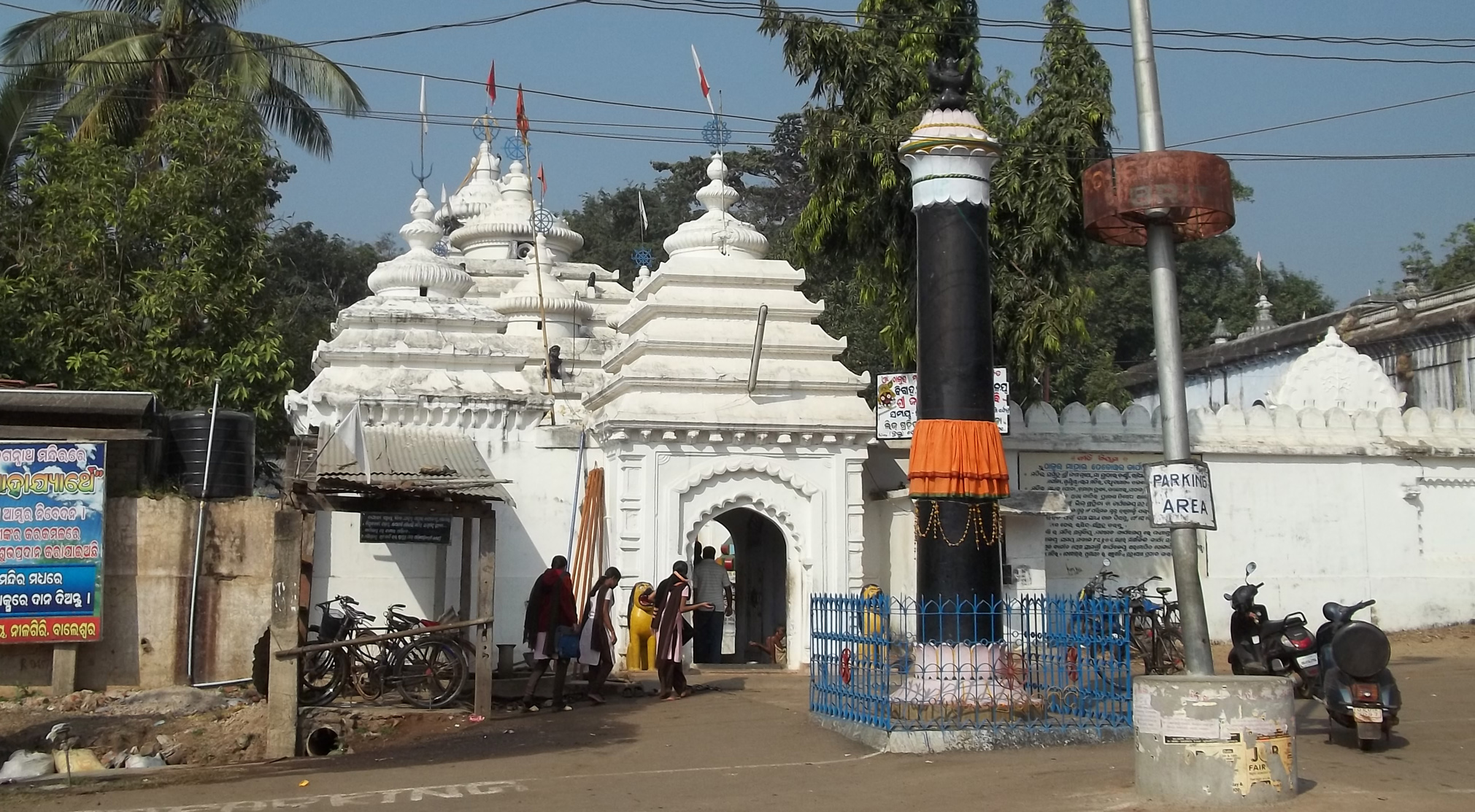 Nilagiri Jagannath Temple is one of the prominent Jagannath temples in Odisha. It is situated in Nilagiri, Baleswar. This picture has been taken by Subhashish Panigrahi